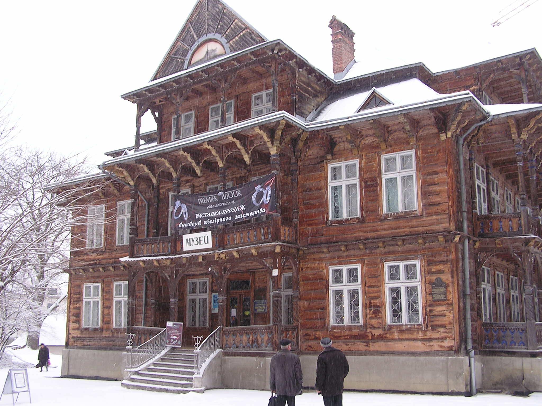 Truskavets